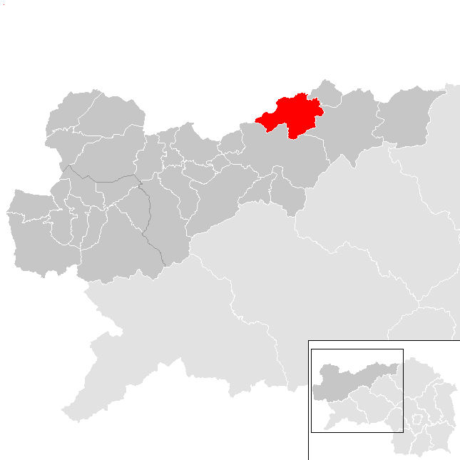 District Leoben